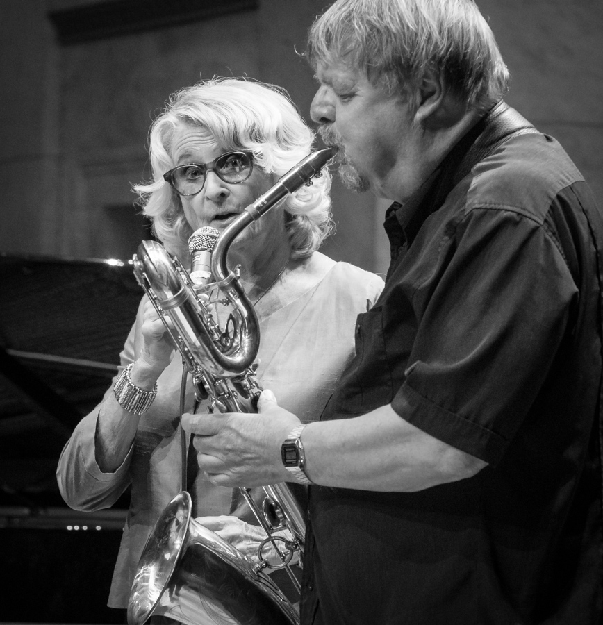 Karin Krog and John Surman in the University Aula. The concert was part of Oslo Jazzfestival and took place on 16. August 2017 in Oslo. Lineup: Karin Krog (vocal), John Surman (baritone saxophone) and Steve Kuhn (piano).